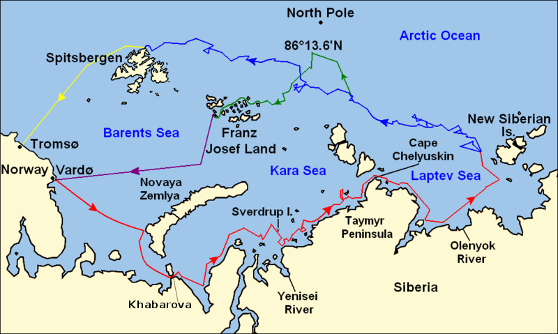 Map of the Arctic Ocean showing the routes taken during the 1893–96 Nansen's Fram expedition: Fram's route eastward from Vardø to the Siberian coast, turning north at the New Siberian Islands to enter the pack ice. July – September 1893 Fram's drift in the ice from the New Siberian Islands, north and west to Spitsbergen, September 1893 – August 1896 Nansen and Johansen's march to Farthest North, 86°20'N, and their subsequent retreat to Cape Flora in Franz Josef Land. February 1895 – June 1896 Nansen and Johansen's return to Vardø from Cape Flora, August 1896 Fram's voyage from Spitsbergen to Tromsø, August 1896